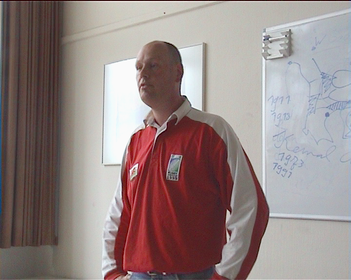 Tim Mudde at a Nee tegen Turkije (No Against Turkey) meeting in May 2004.